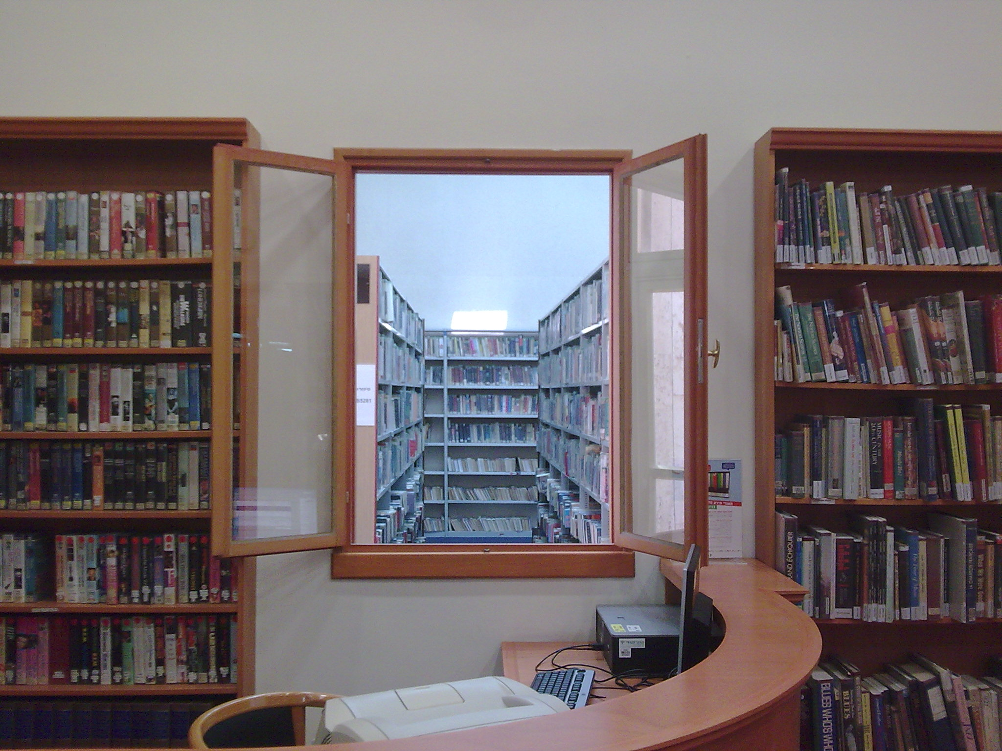 Music Library, Education in Israel